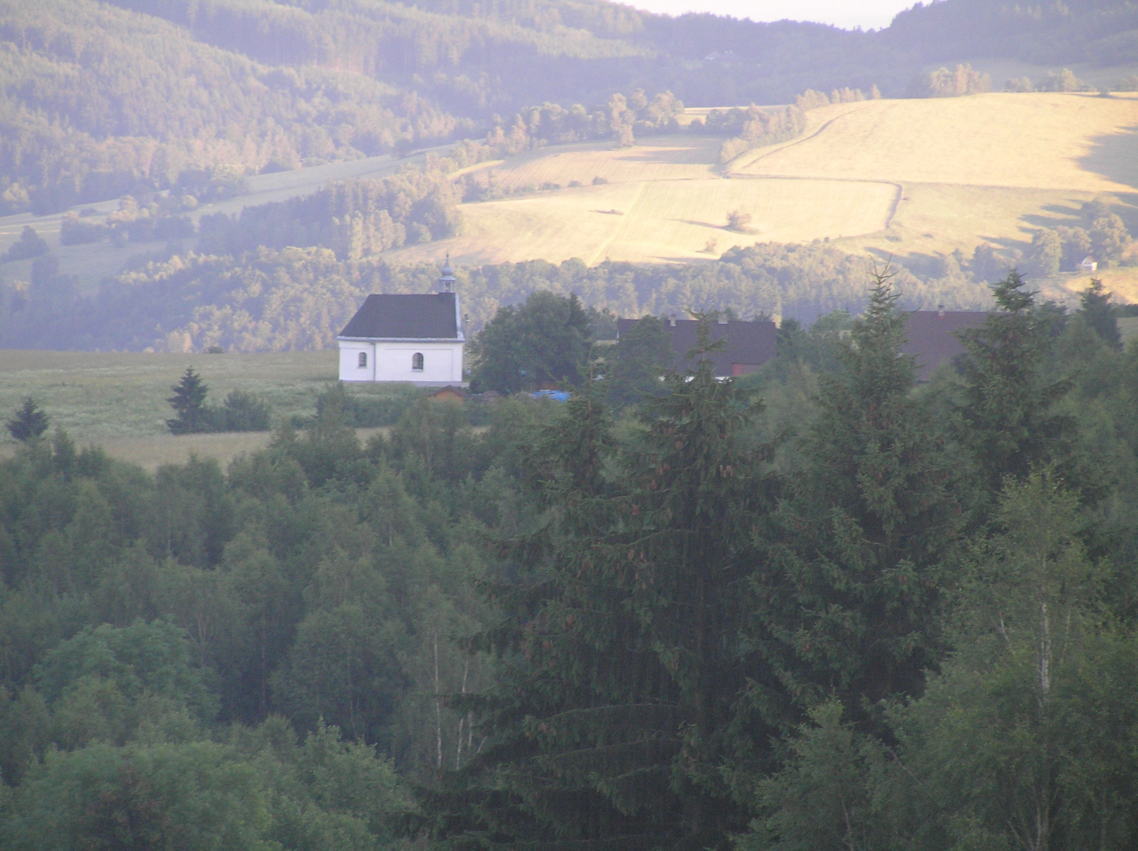 The village Vysoká, Králický Sněžník Mountains, Czech Republic